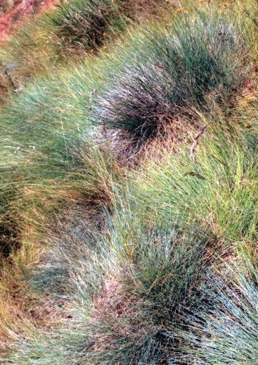 Festuca galicicae